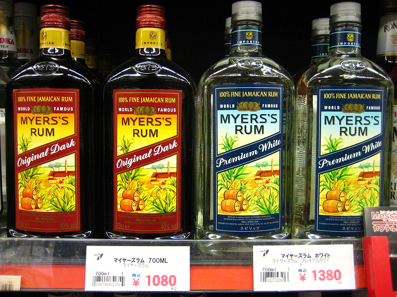 Bottles of Myers's Rum Original Dark and Premium White photographed with a Canon Power Shot SD450 Digital Elph at the Yamaya Liquor Store in Fukushima City, Fukushima Prefecture, Japan. Image file extension was changed using a Paint Shop program on a laptop computer.